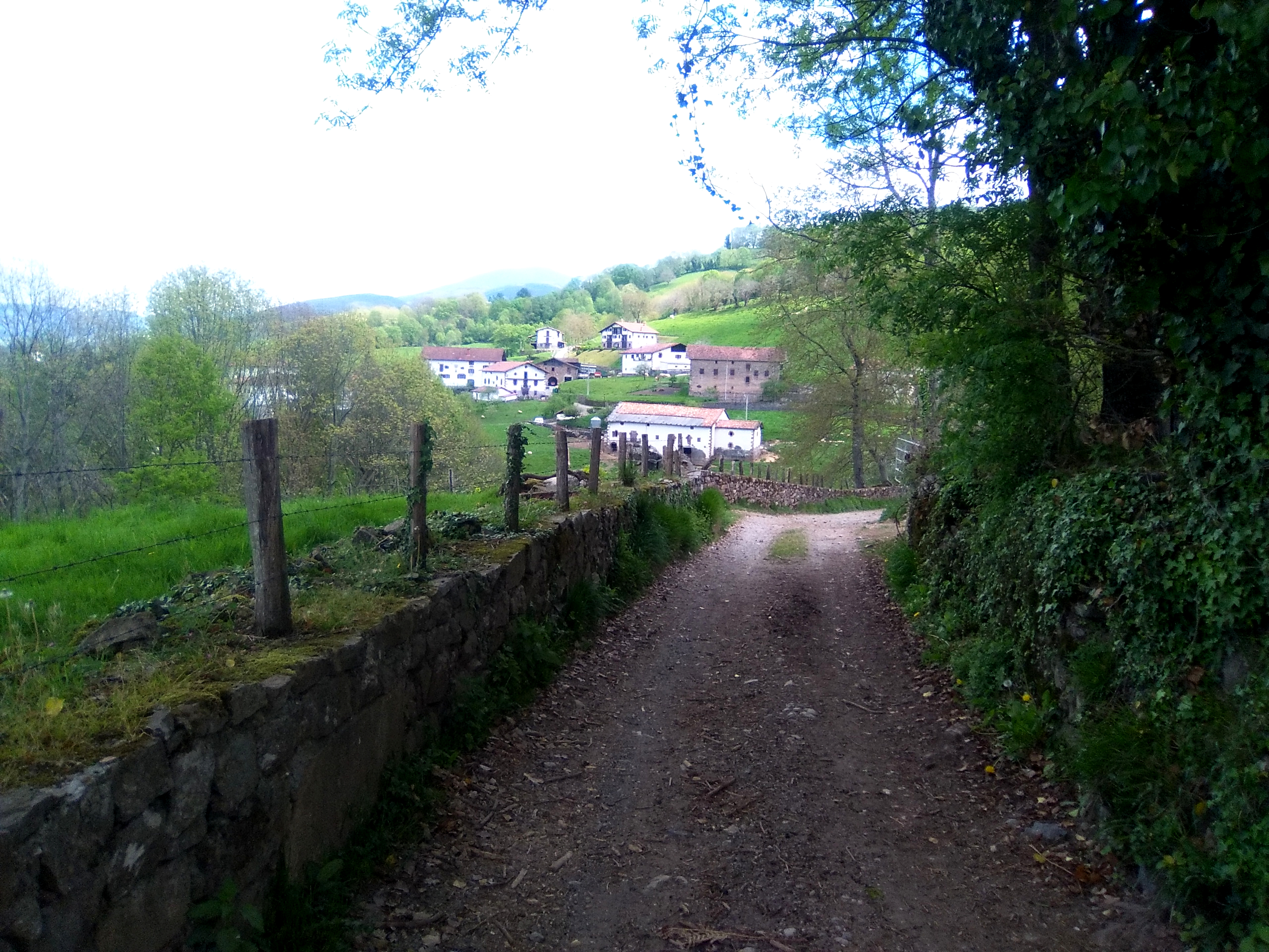 Aitzano, Gartzain. Baztan, Navarre, Basque Country